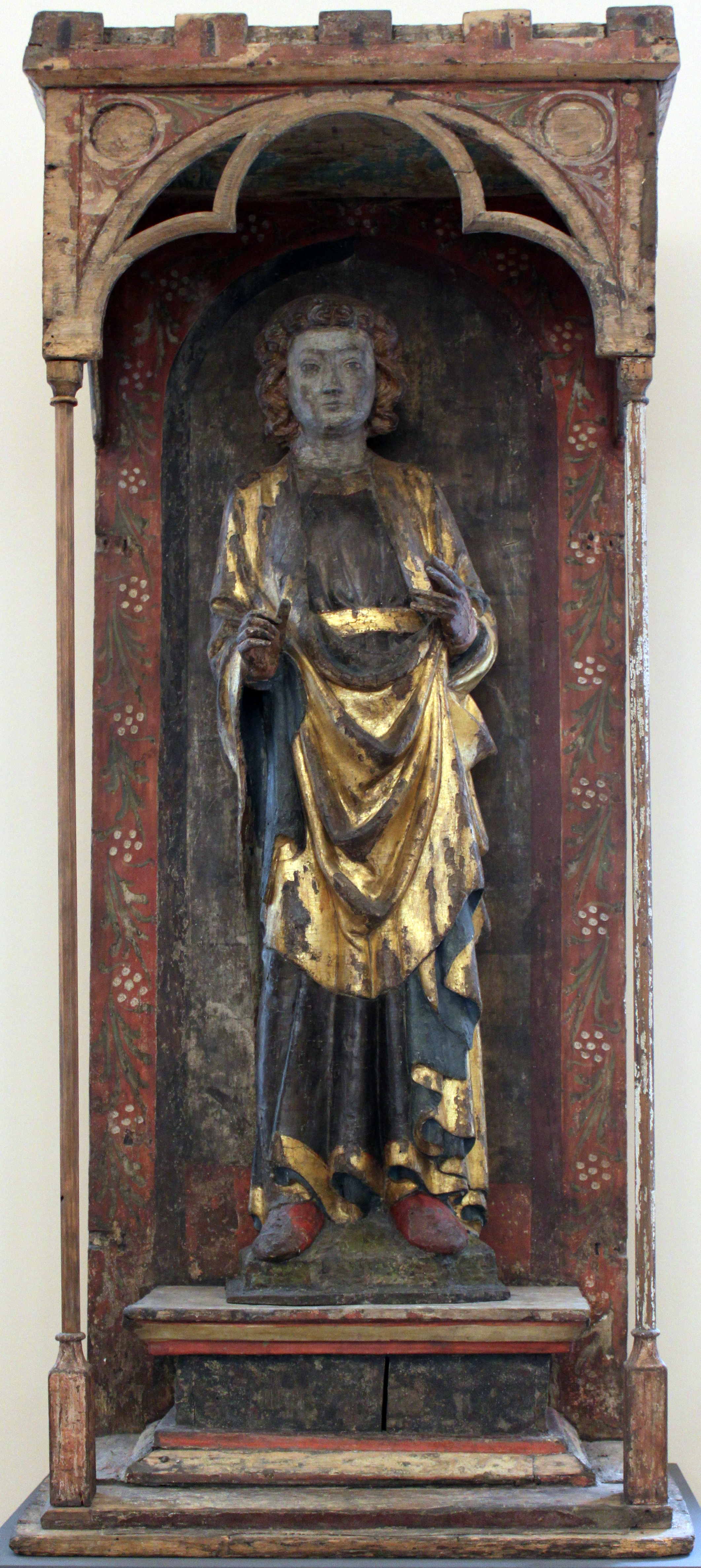 St. Pankratius in a Tabernacle Shrine; Northern Germany, ca. 1300, Skulpturensammlung (Inv. 3198), Bodemuseum Berlin